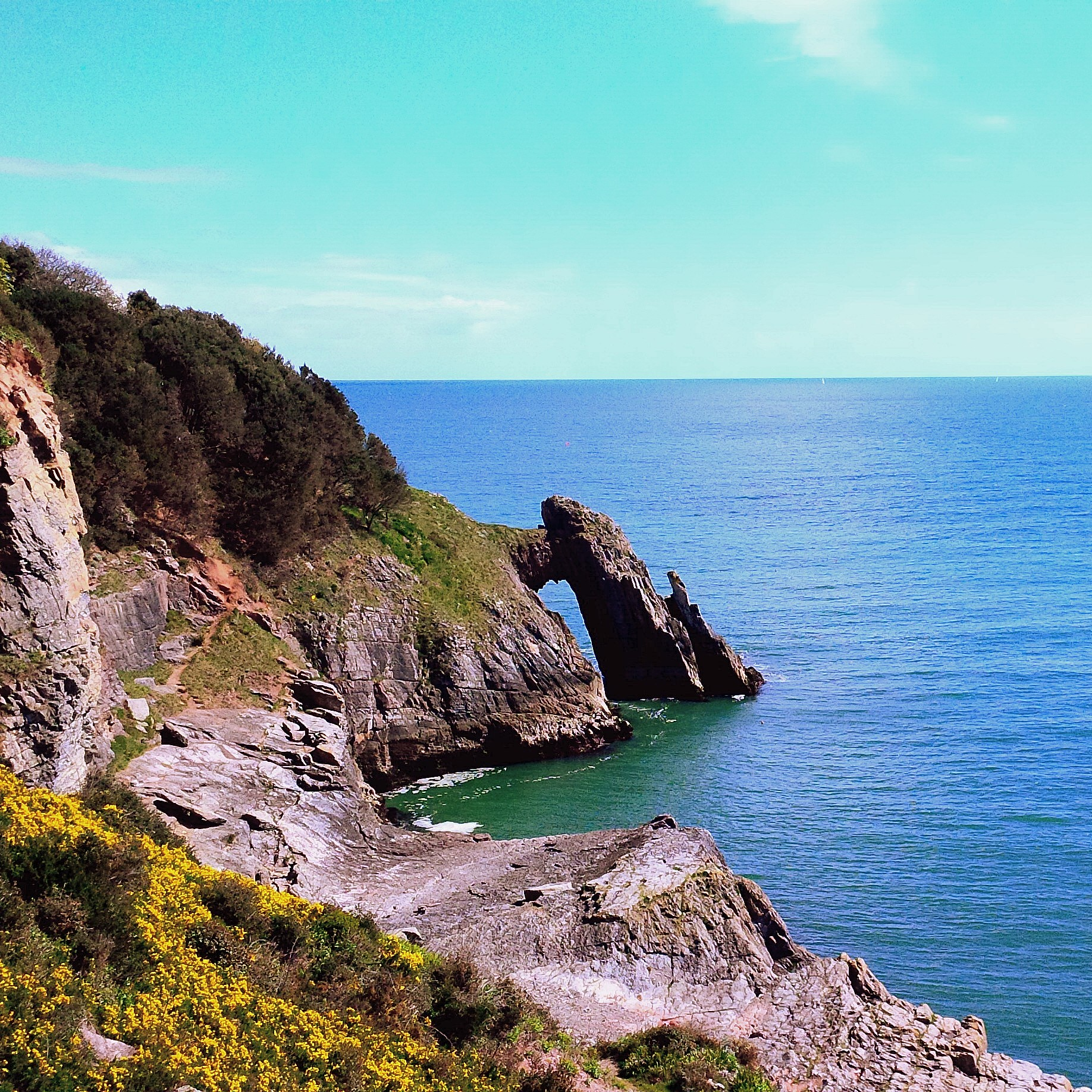 Torquay cliffs seen from the South West Coast Path near Rock Walk (2014).